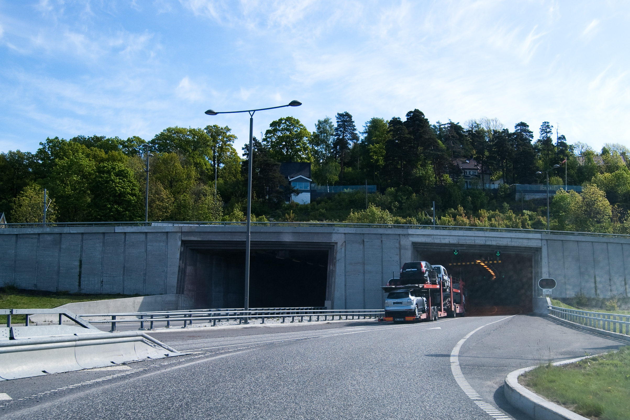 Frodeåstunnelen from the west, Tønsberg, Vestfold, Norway